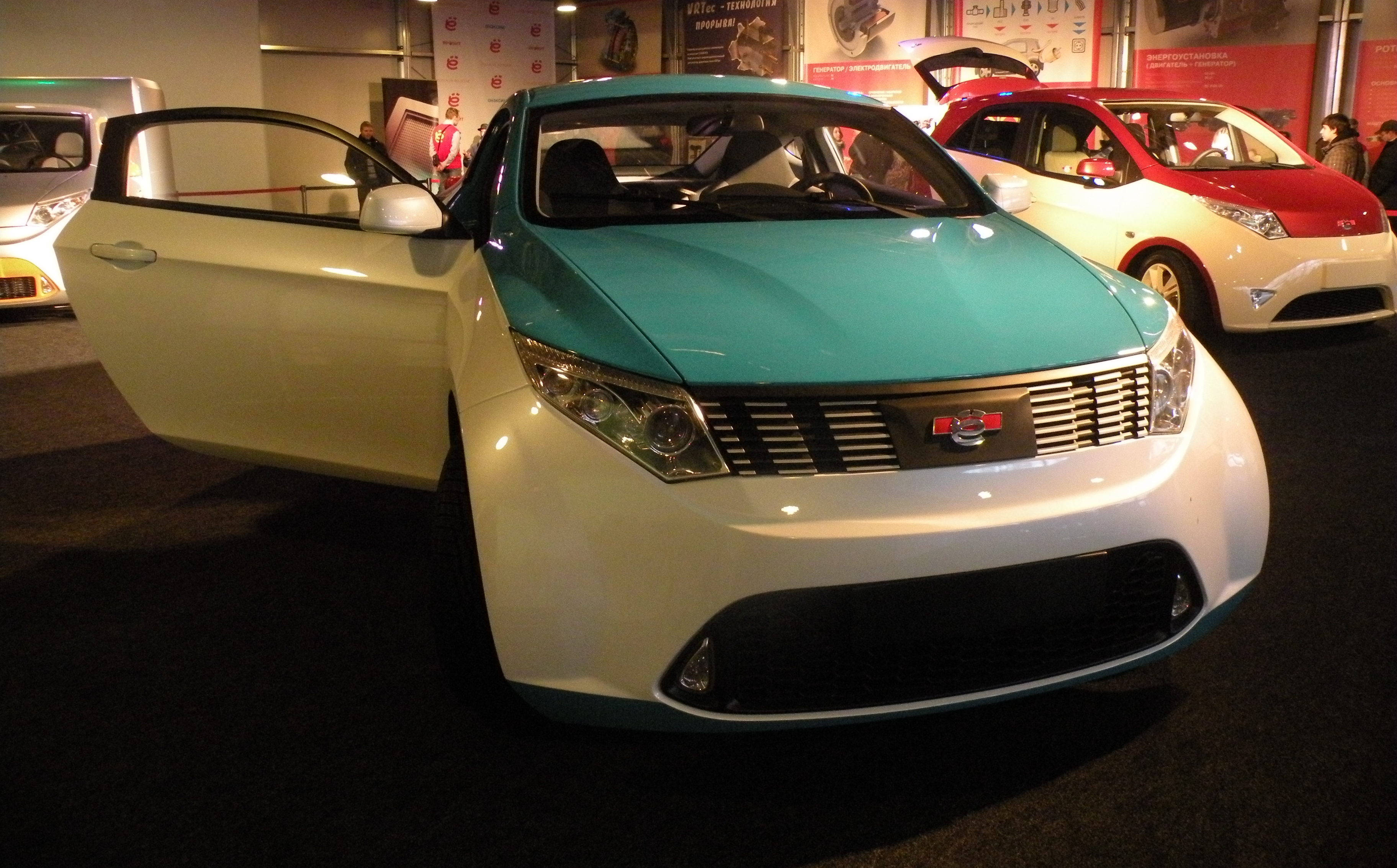 exposition of the Yo-mobil's in Moscow, January, 2011